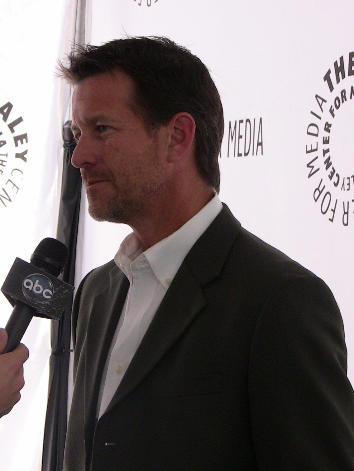 Actor James Denton at Desperate Housewives Paley Fest, William S. Paley Center, Beverly Hills, California